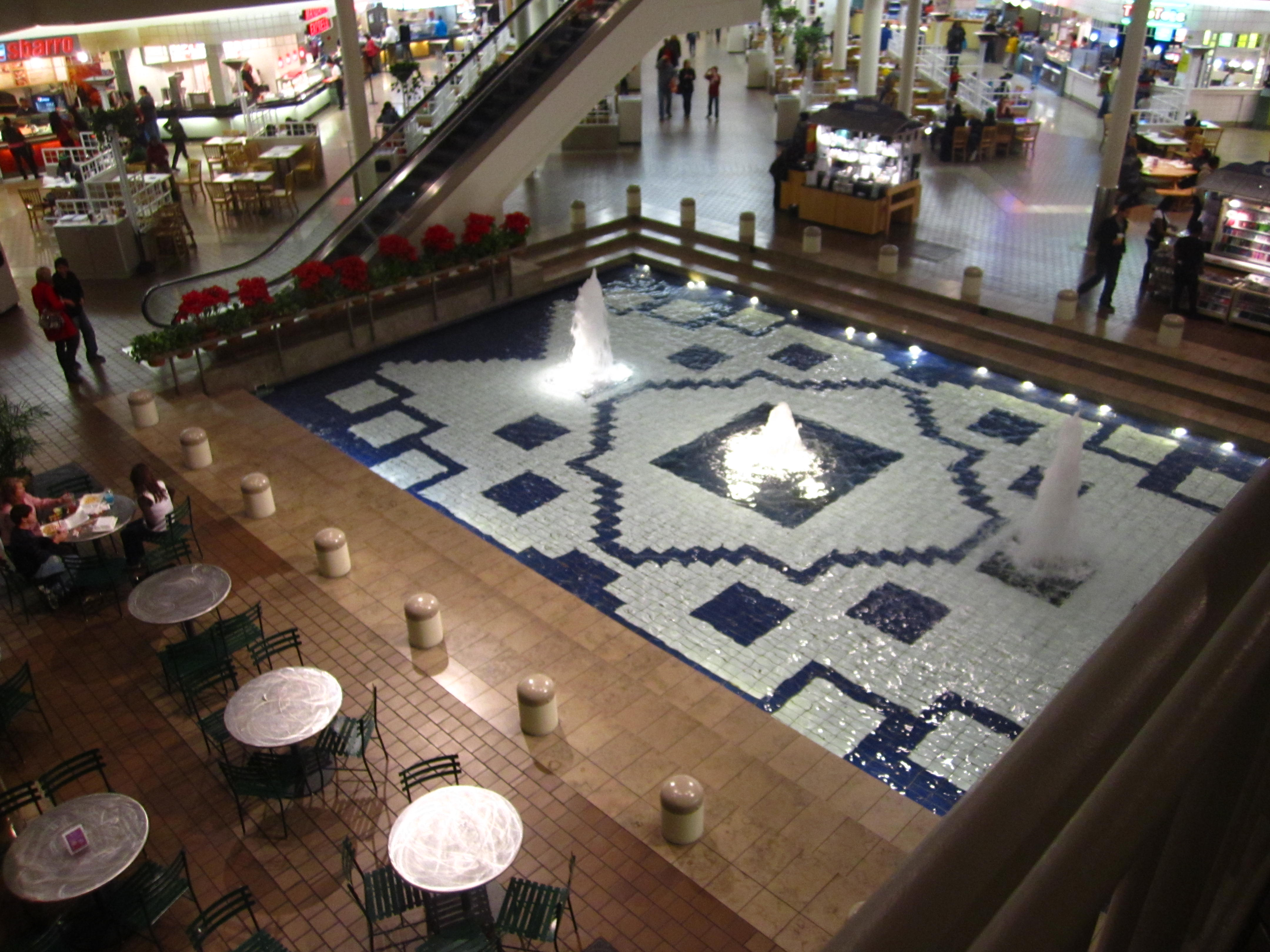 Governor's Square Mall - Tallahassee, Florida